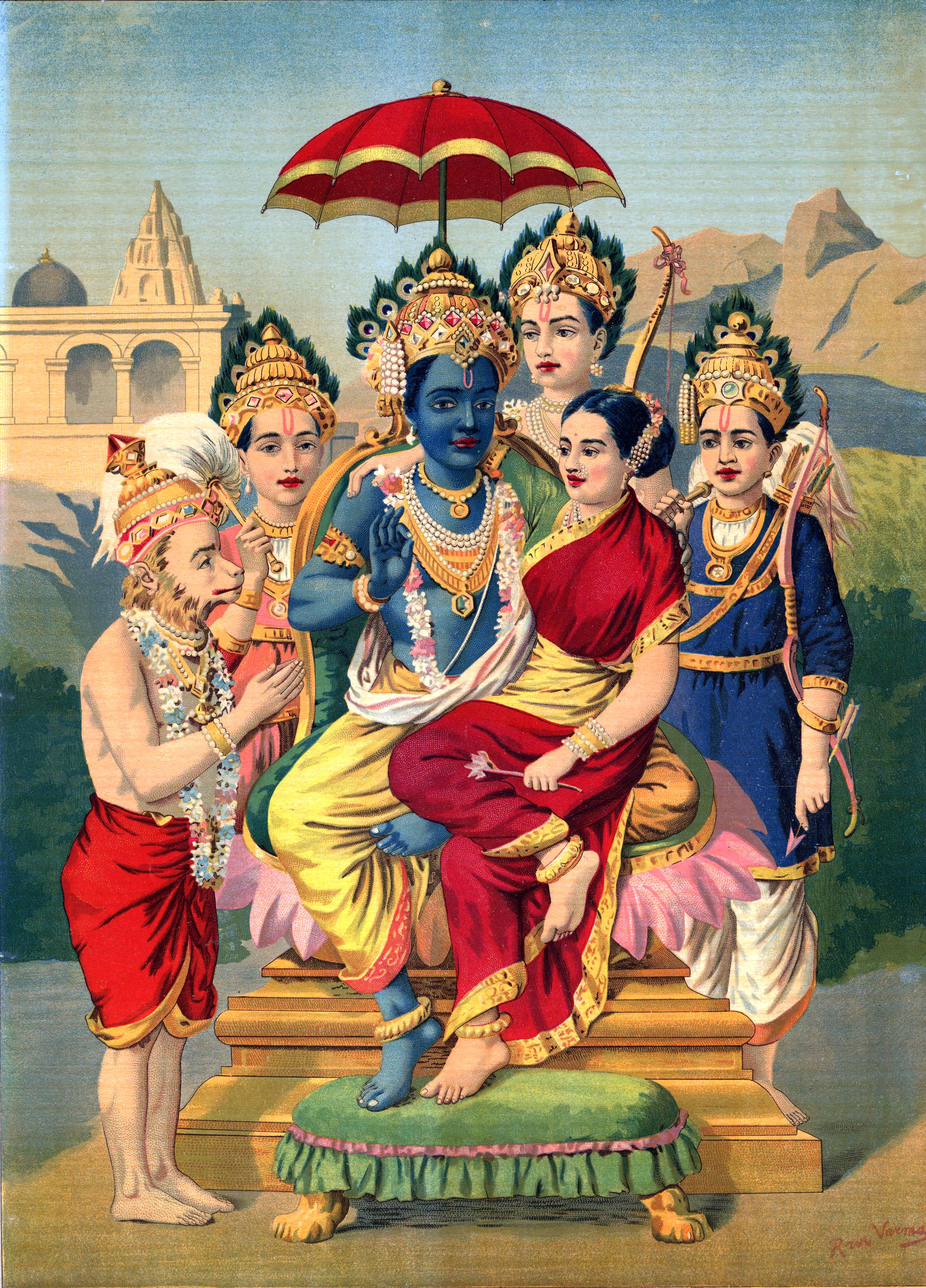 Rama and Sita, with Hanuman, and Rama's three brothers Lakshmana, Bharata, and Shatrughna.